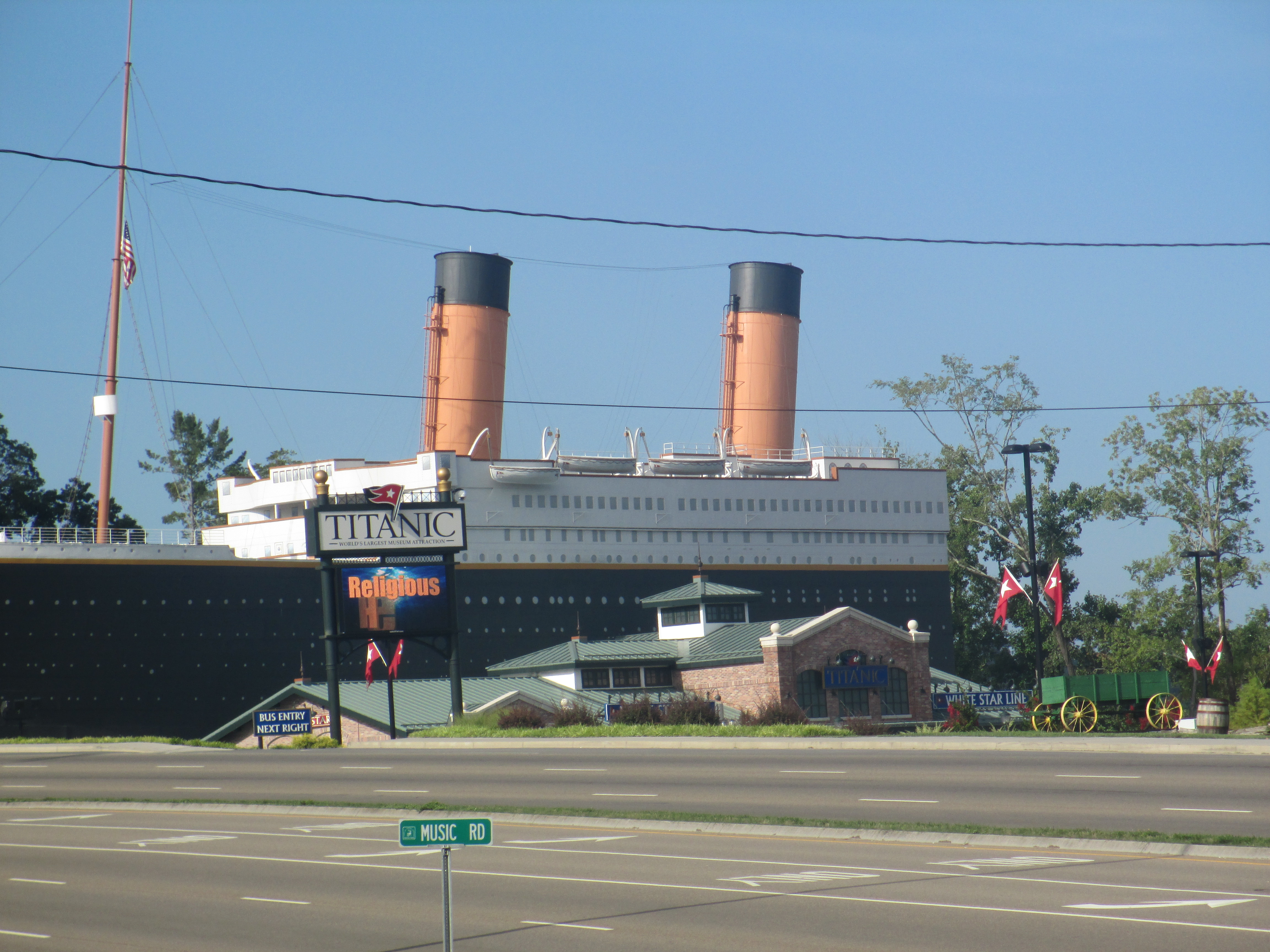 I took photo of outside of Titanic Museum at Pigeon Forge, TN, with Canon camera.